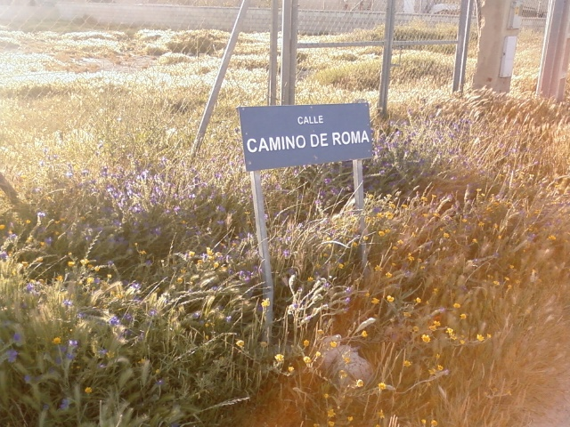 Trace of the Roman Road Augusta in El Puerto de Santa María